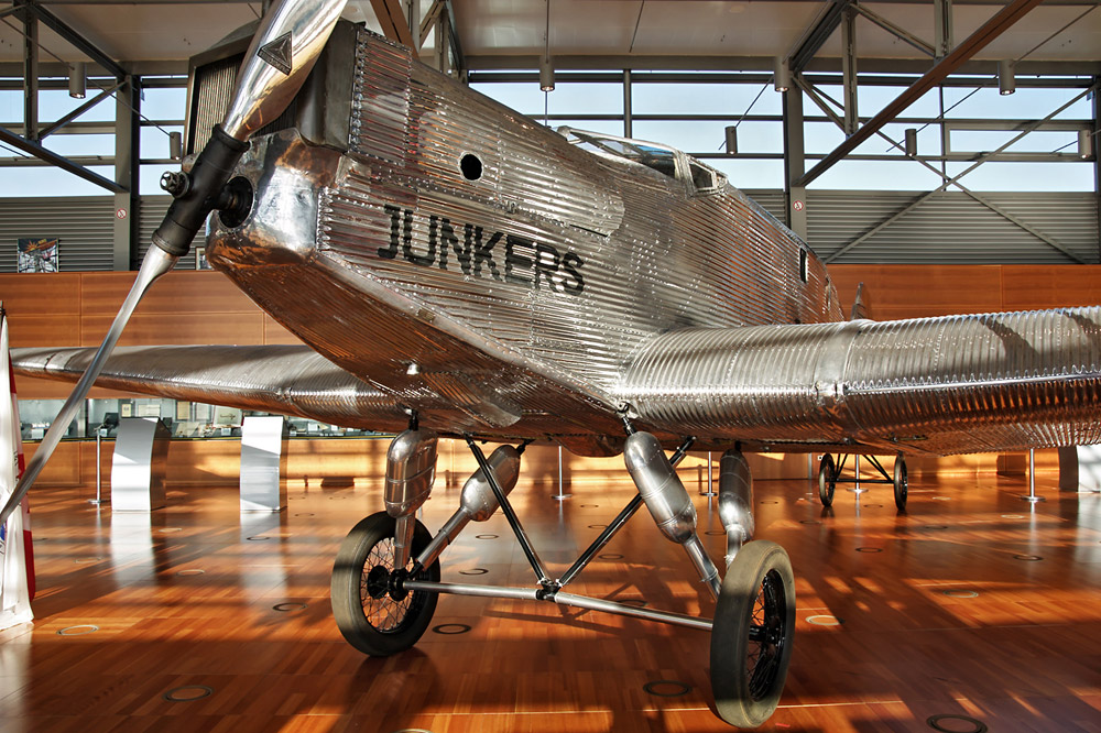 Junkers W33 - displayed at "Bremenhalle" Airport Bremen